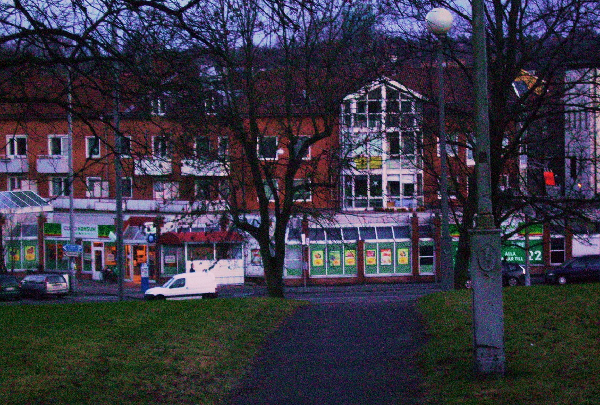 Picture of Munkebäckstorget in Gothenburg, Sweden